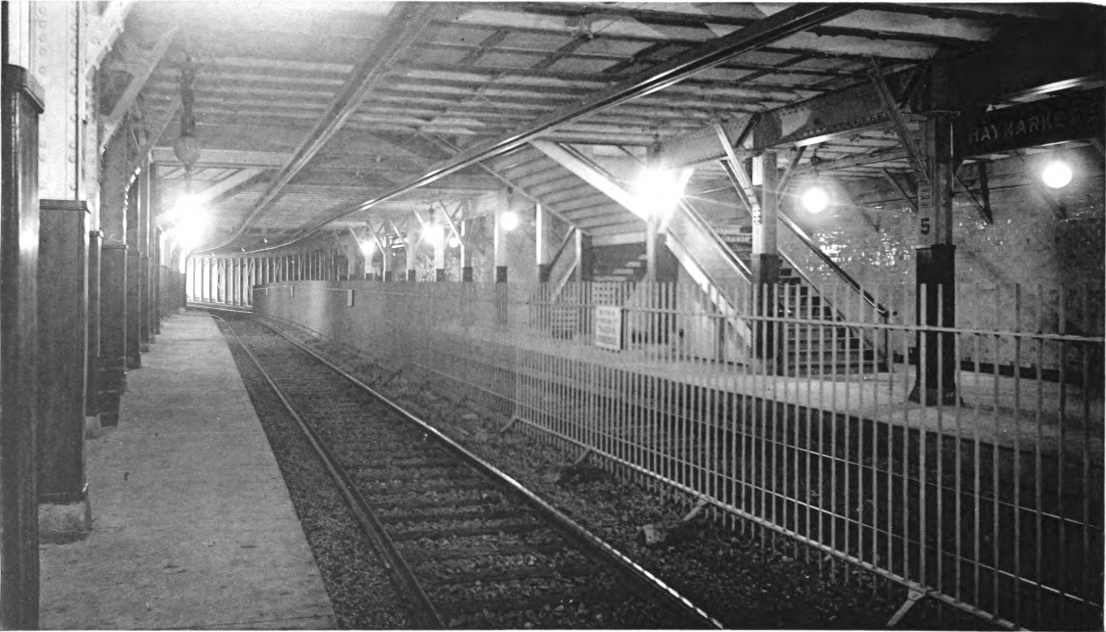 Boston, Massachusetts. Southbound (inbound) platform at Haymarket station in 1898, looking north (outbound). Original caption: HAYMARKET-SQUARE STATION, SOUTH-BOUND PLATFORM (LOOKING NORTH).